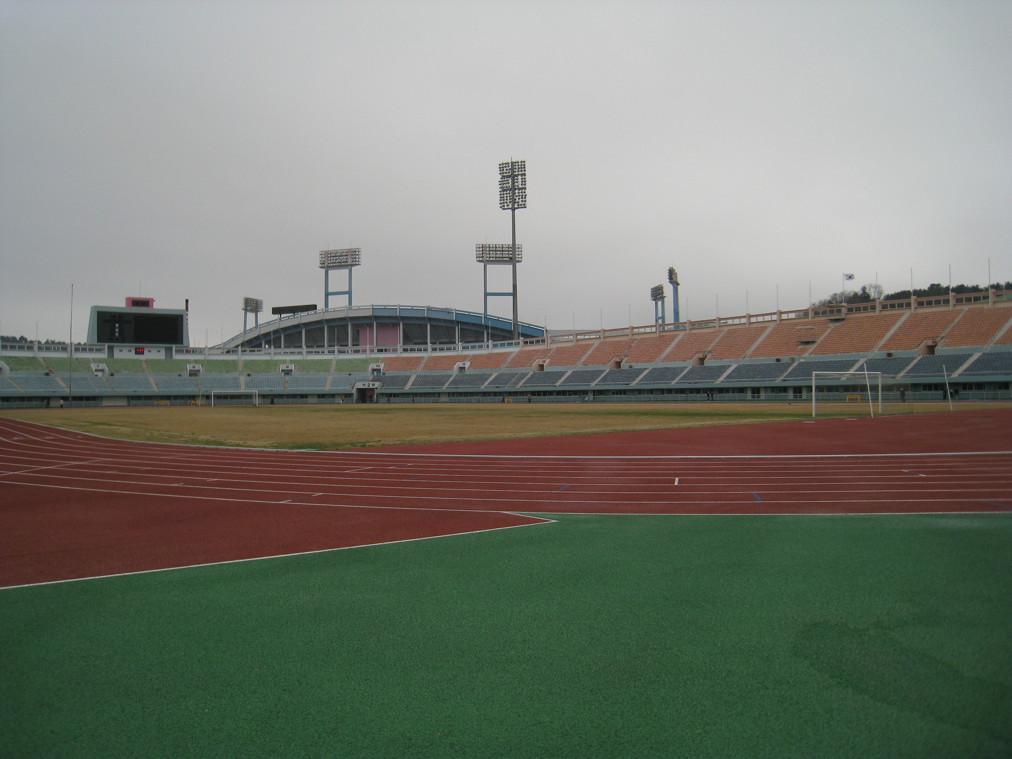 Masan Sportsstadium. Masan, Gyeongsangnam-do.South Korea.